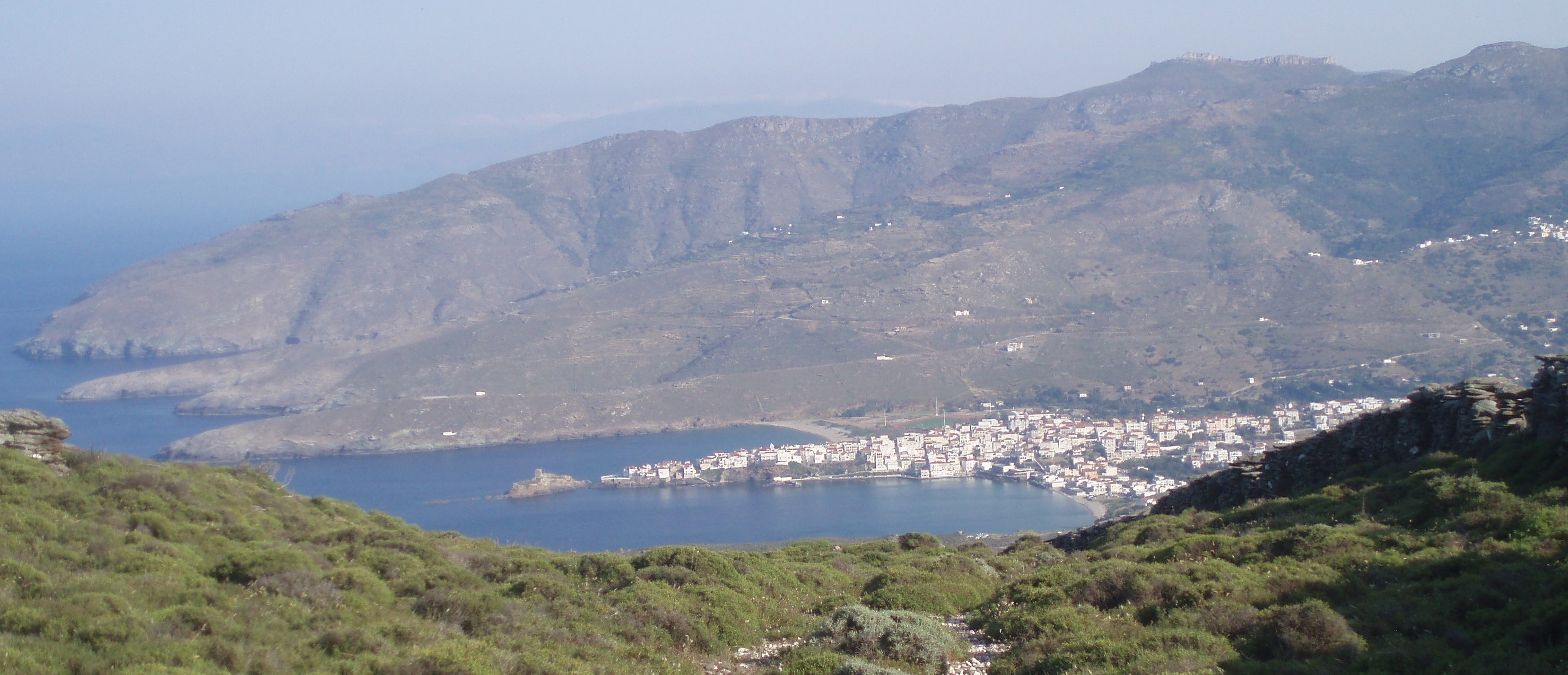 View of Andros island's main town Chora, Greece, Cyclades